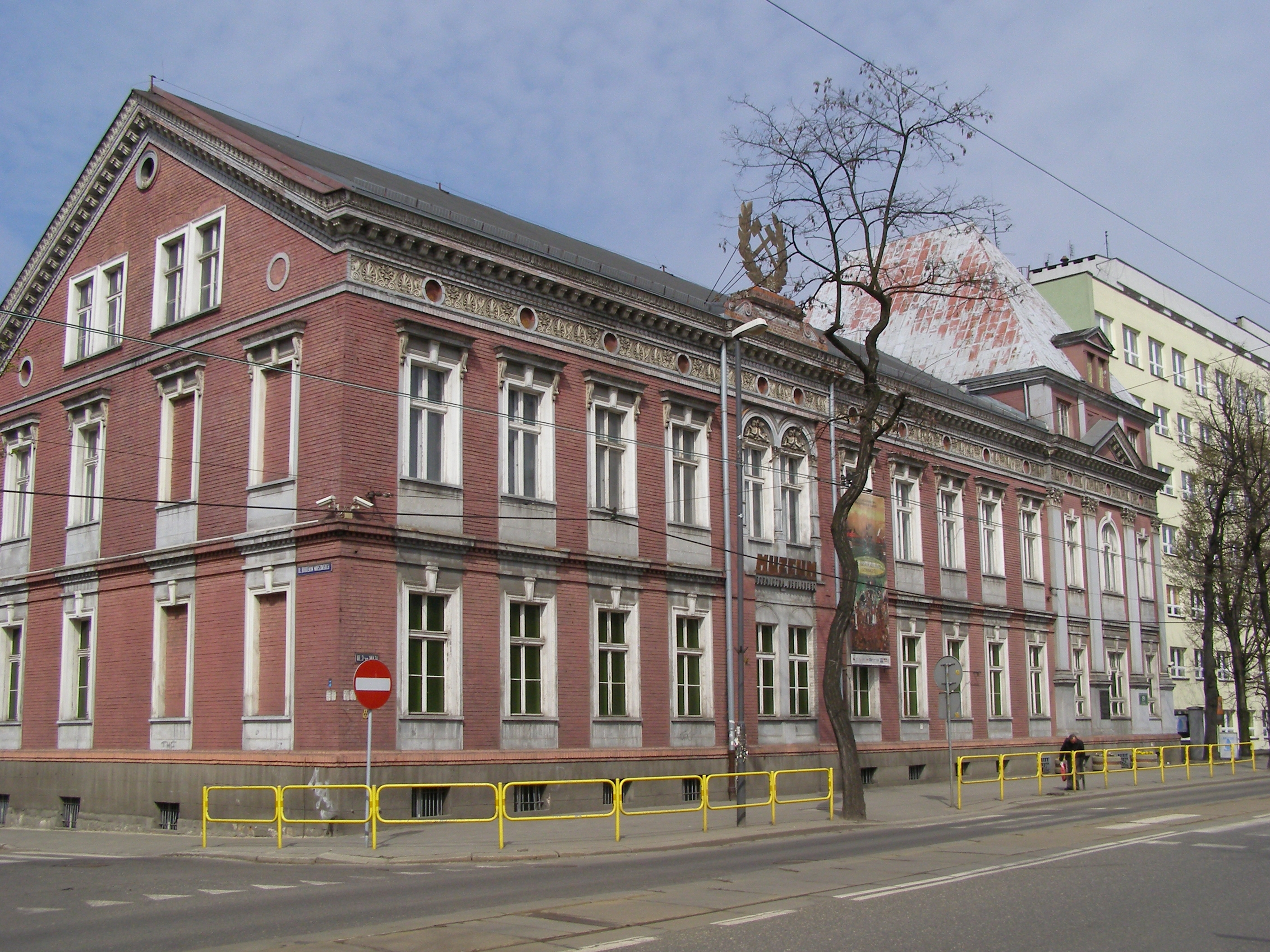 Zabrze - Coal Mining Museum